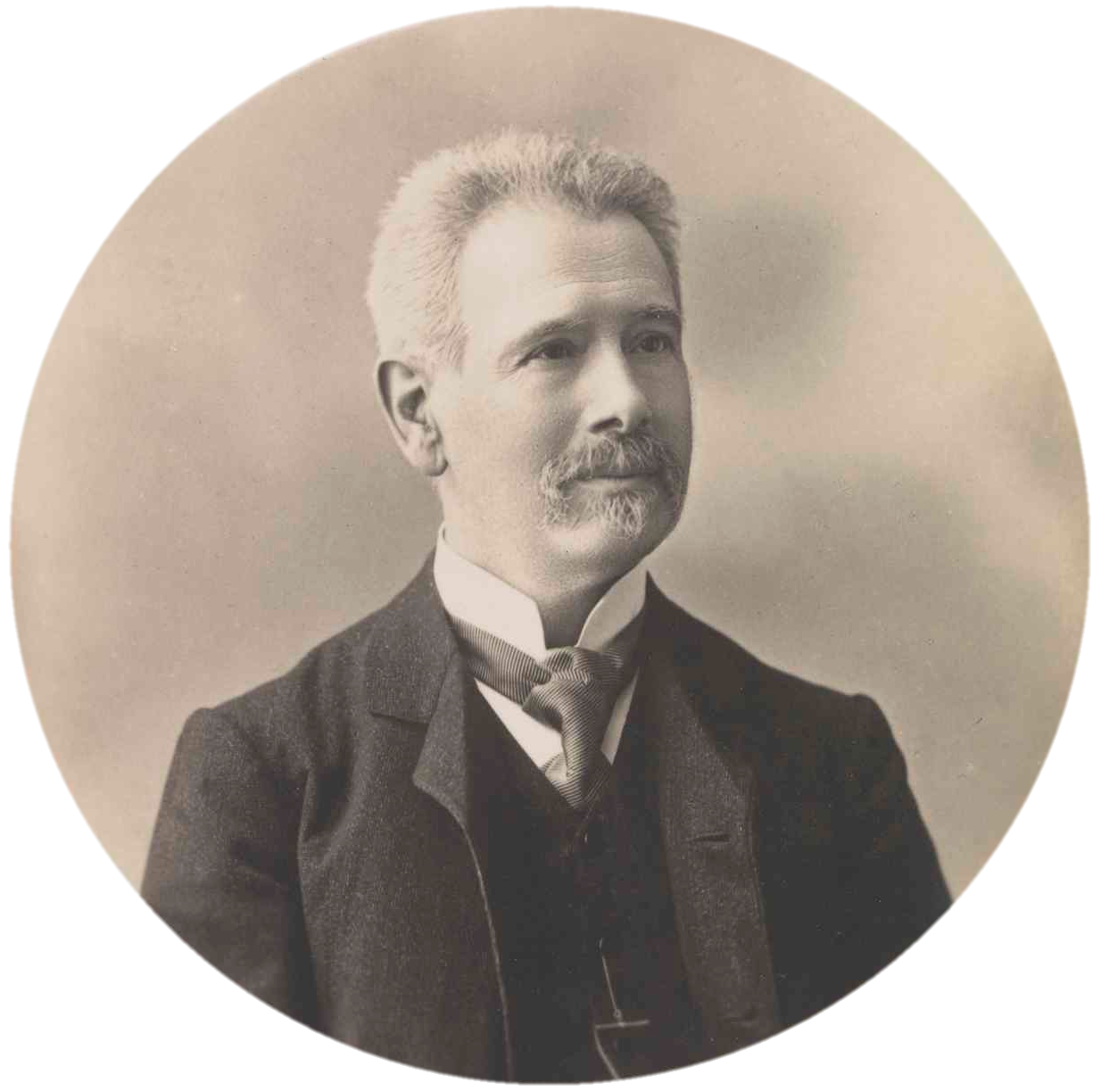 Photograph of Teófilo Braga in 1915, while President of the Portuguese Republic.